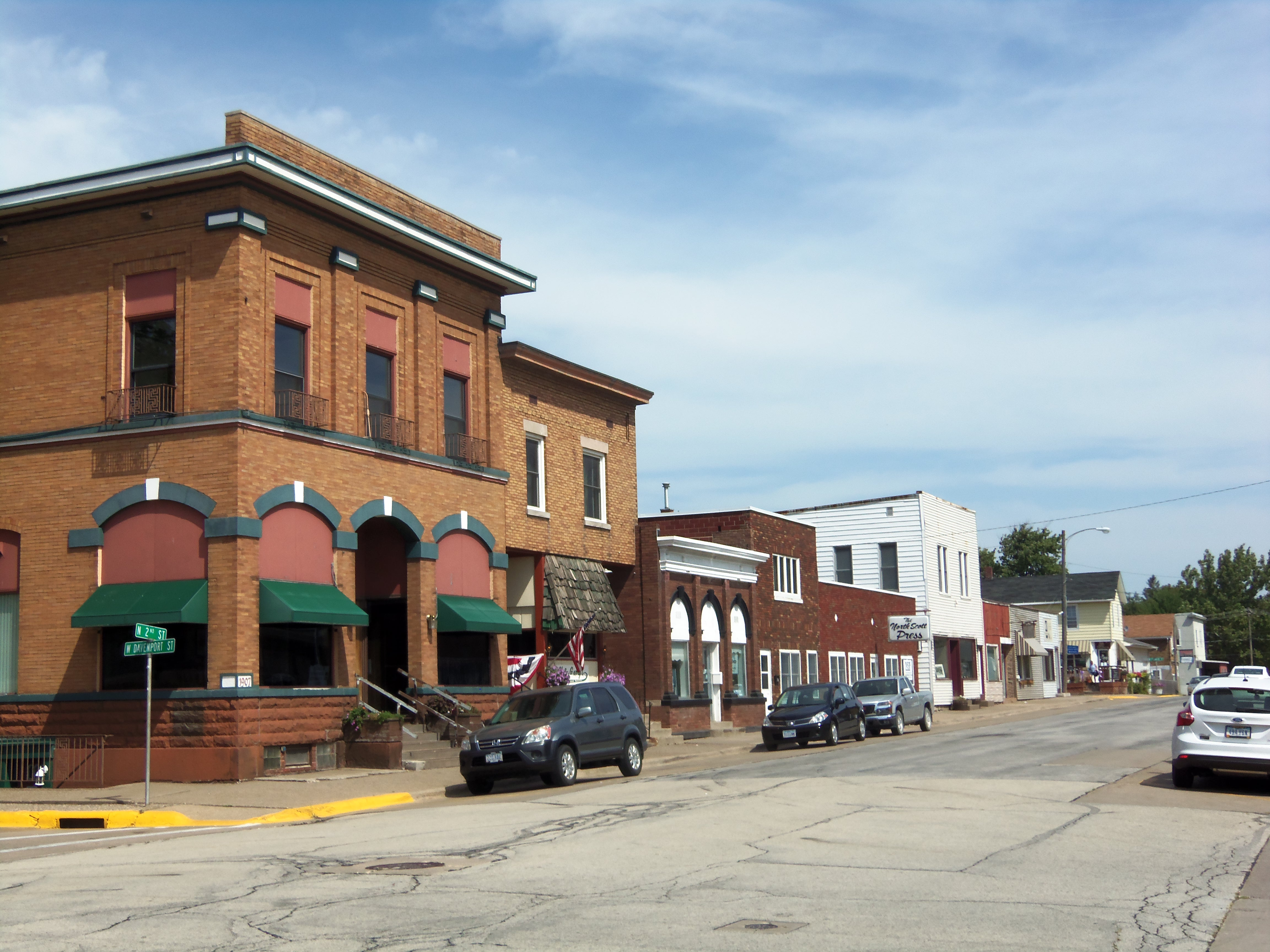 Original business disrict in Eldridge, Iowa